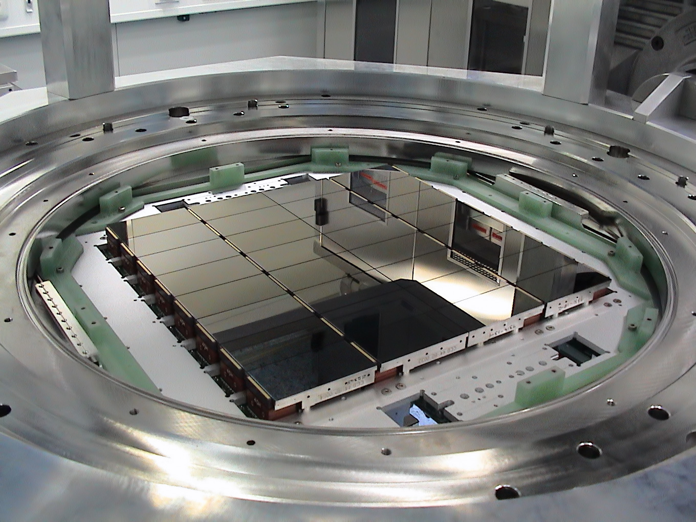 The OmegaCAM camera lies at the heart of the VST. This view shows its 32 CCD detectors that together create 268-megapixel images. OmegaCAM was designed and built by a consortium including institutes in the Netherlands, Germany and Italy with major contributions from ESO.